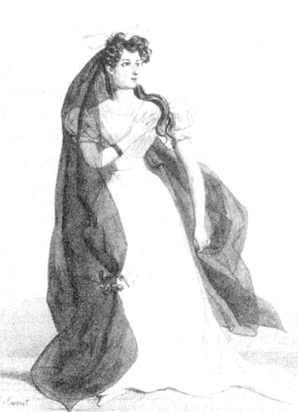 Irish actress Harriet Smithson as Ophelia in Charles Kemble's 1827 production of Hamlet in Paris. Image has been cropped, and the contrast altered.